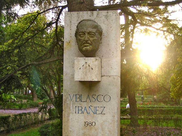 Statue dedicated to Vicent Blasco Ibáñez in the avenue of the same name, in Valencia